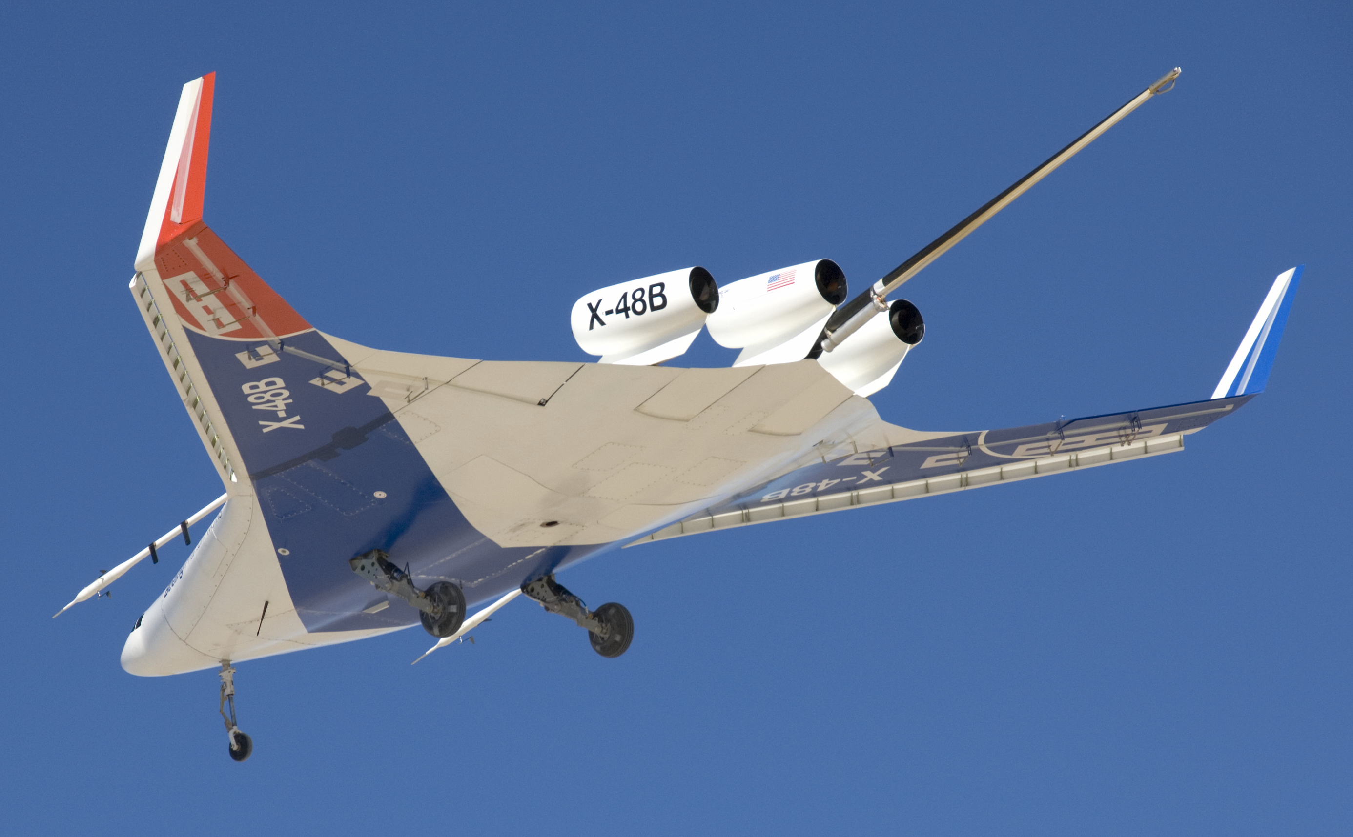 Boeing X-48B seen from left and below during its first flight. The winglets, which also serve as rudders, are particularly visible.